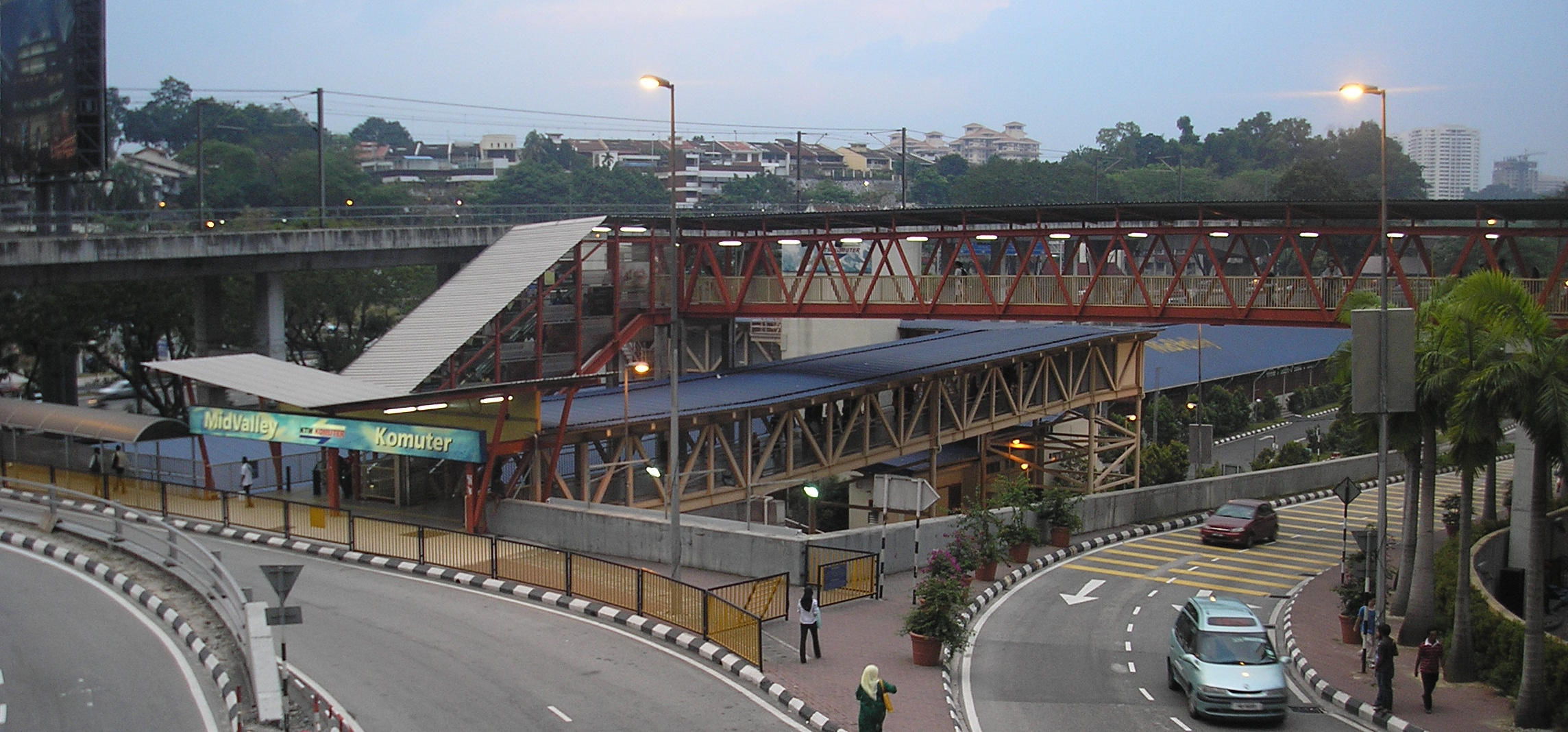 The Mid Valley Komuter station (Rawang-Seremban) (exterior), Kuala Lumpur, Malaysia.